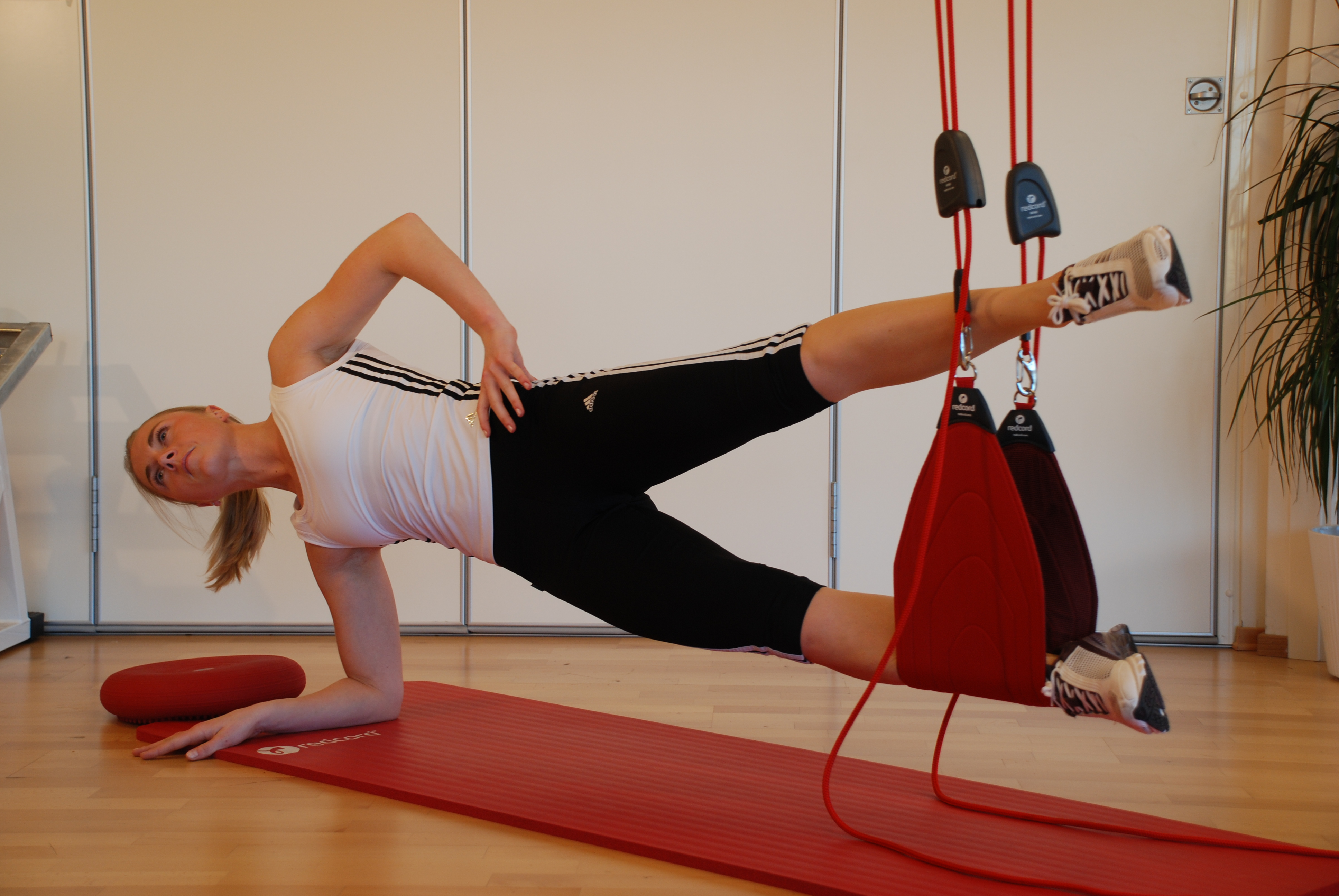 suspension exercise